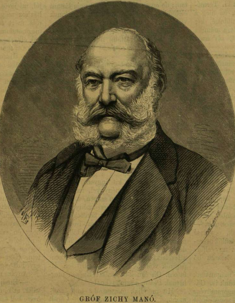 Portrait of Zichy Manó